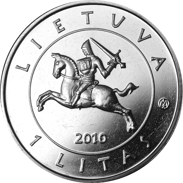 Denomination 1 litas Alloy of Copper and Nickel Cu. Ni Diameter 22.30 mm Weight 6.25 g Mintage 1.0 million pieces